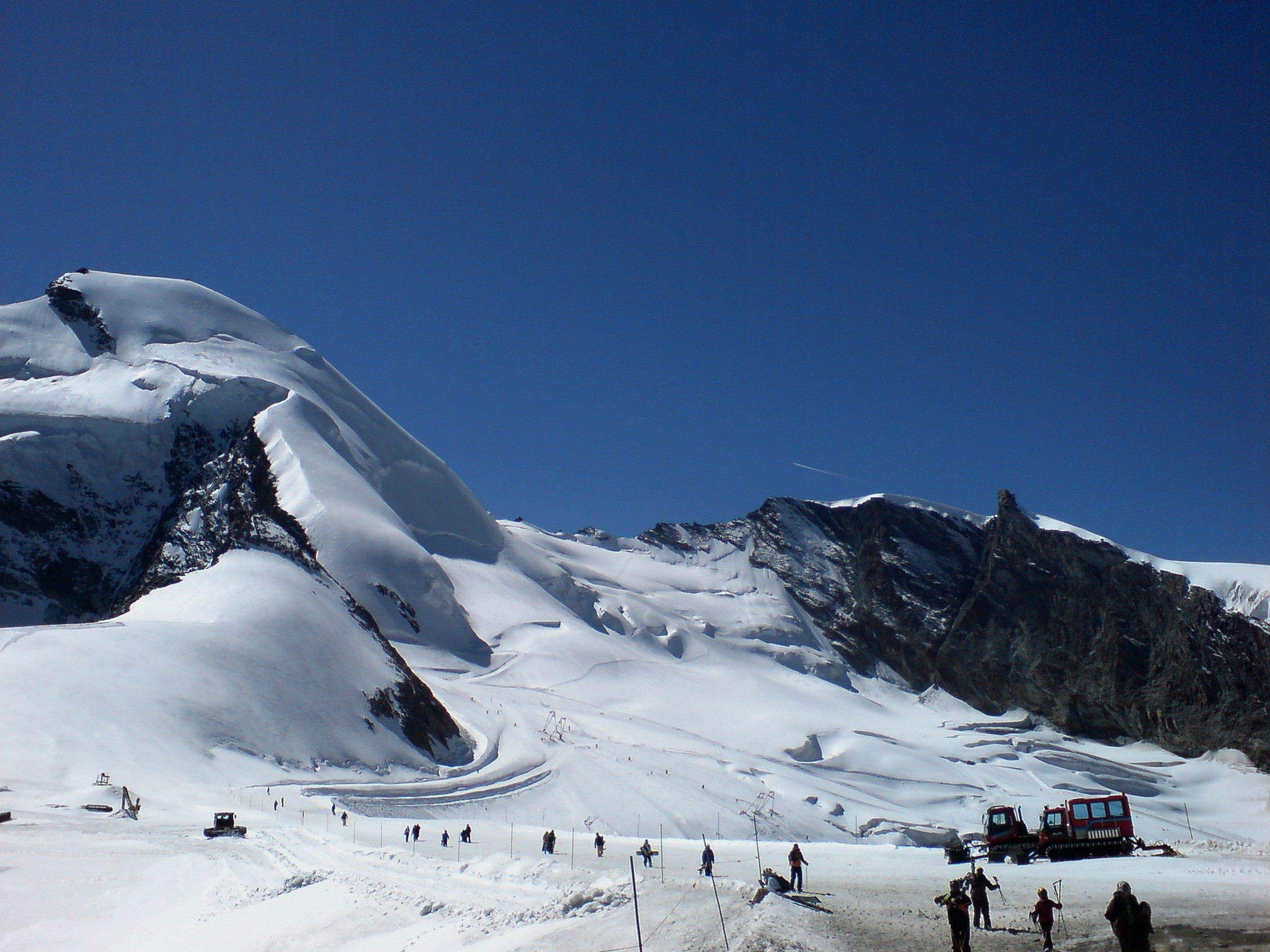 Fee Glacier (Feegletscher) above Saas Fee. Summer ski. View from Mittelallalin.